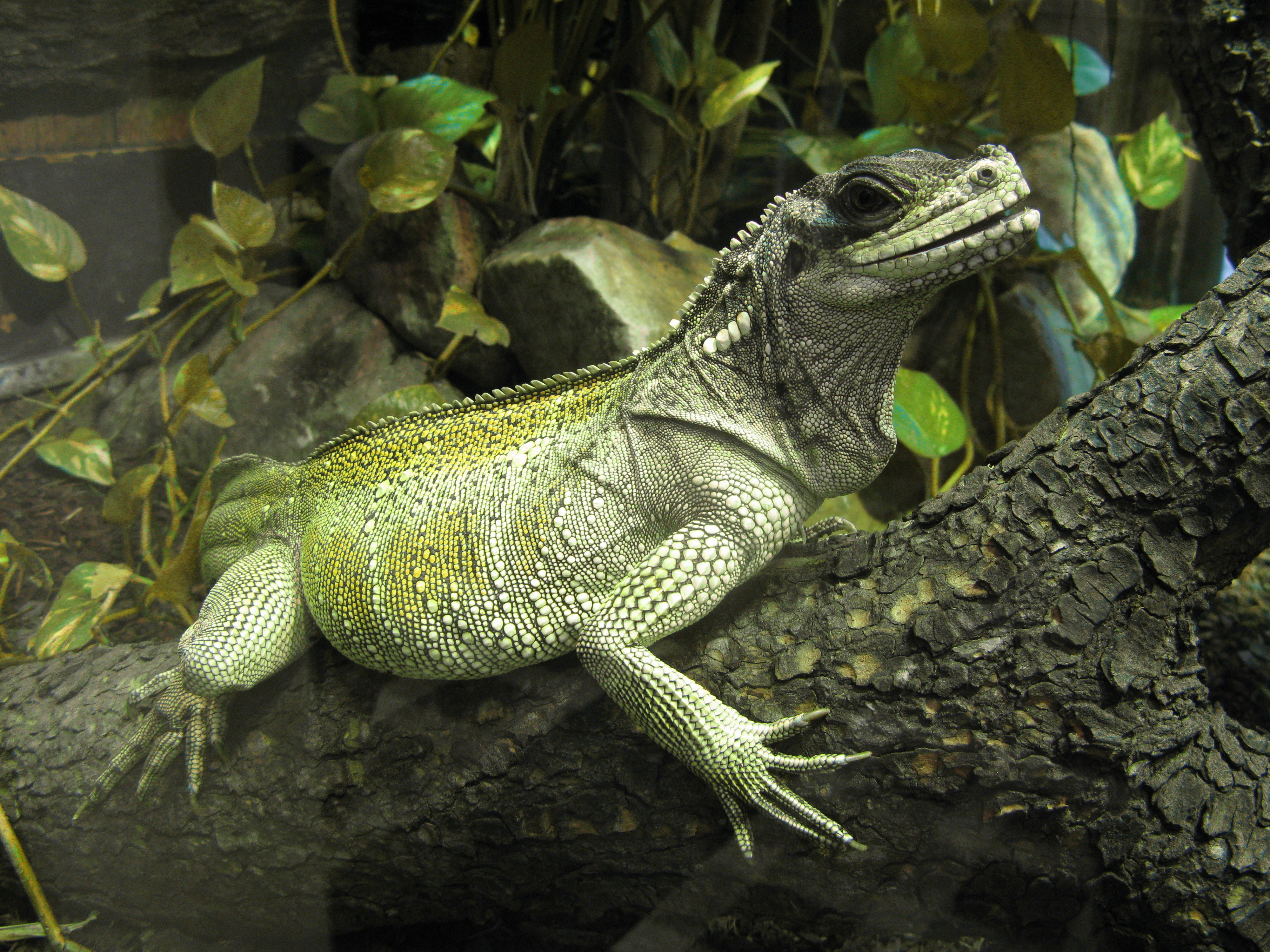 Weber's sailfin lizard (hydrosaurus weberi), Ménagerie du Jardin des plantes, Paris.